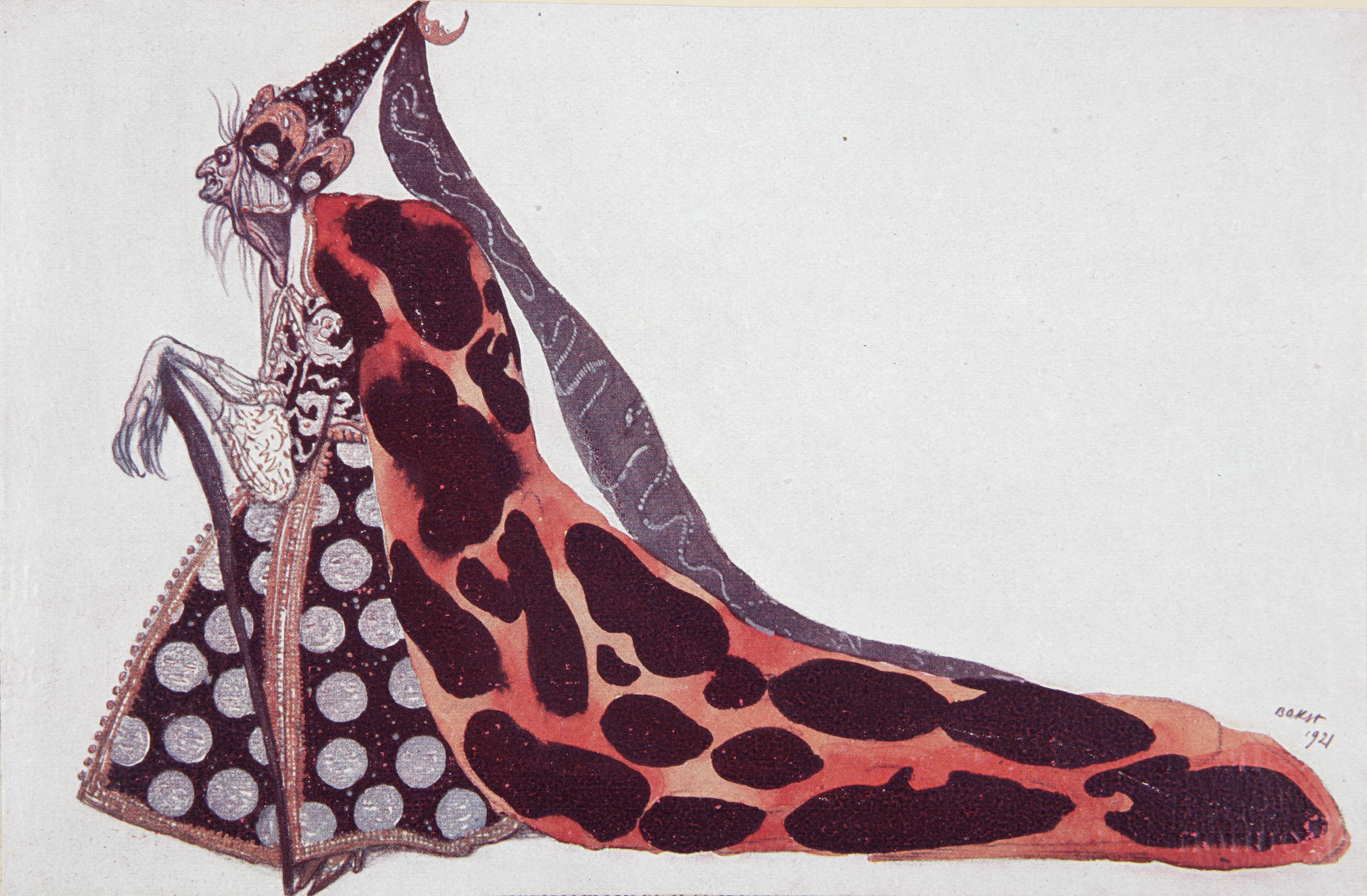 Leon Bakst design for the costume of Carabosse in the ballet The Sleeping Beauty. The drawing is signed "Bakst 1921".